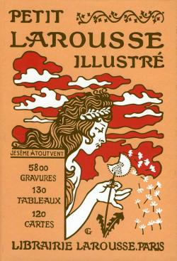 Le Petit Larousse in its original form, 1905 edition. From the publisher of Le Petit Larousse